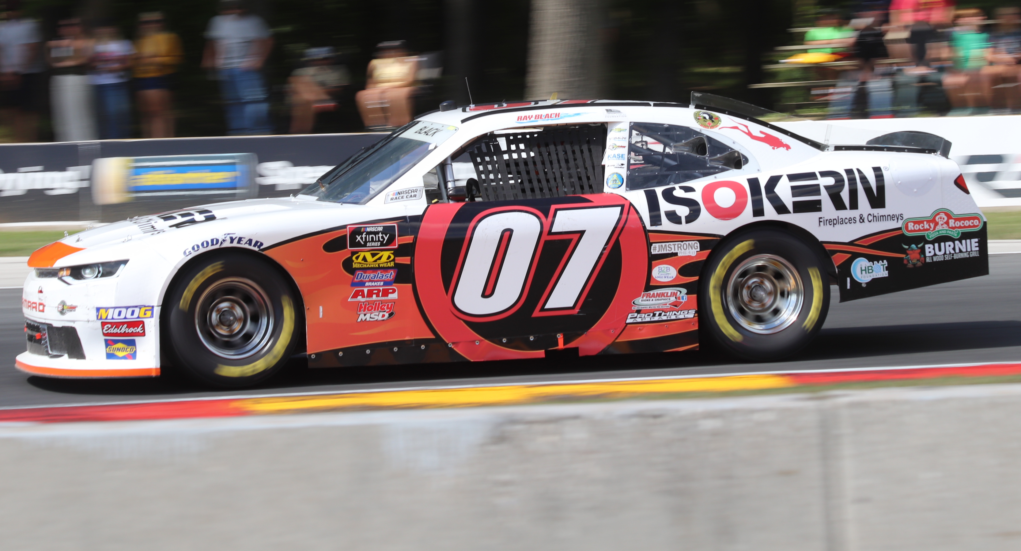 The #07 Chevrolet Camaro of Ray Black Jr. at the NASCAR CTECH 180.